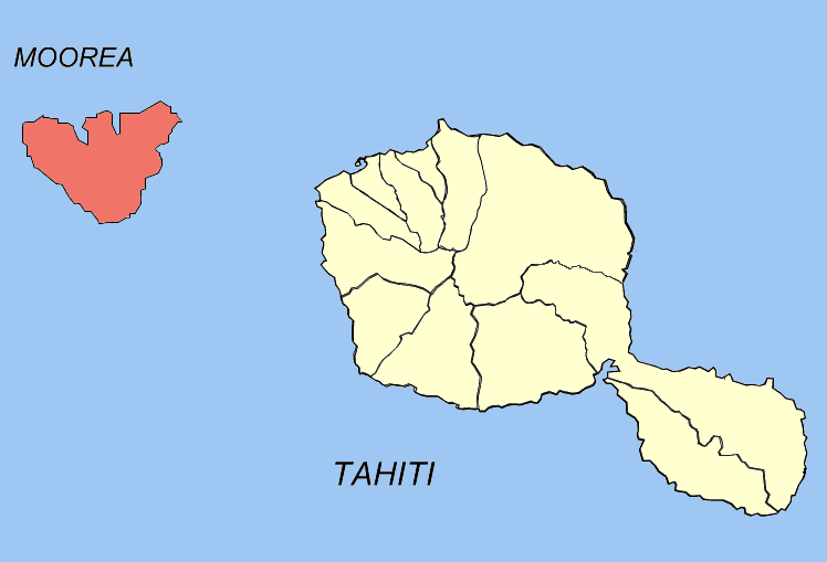 Locator map of the commune of Moorea-Maiao, French Polynesia